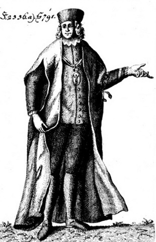 Order clothes of Order of the Knot